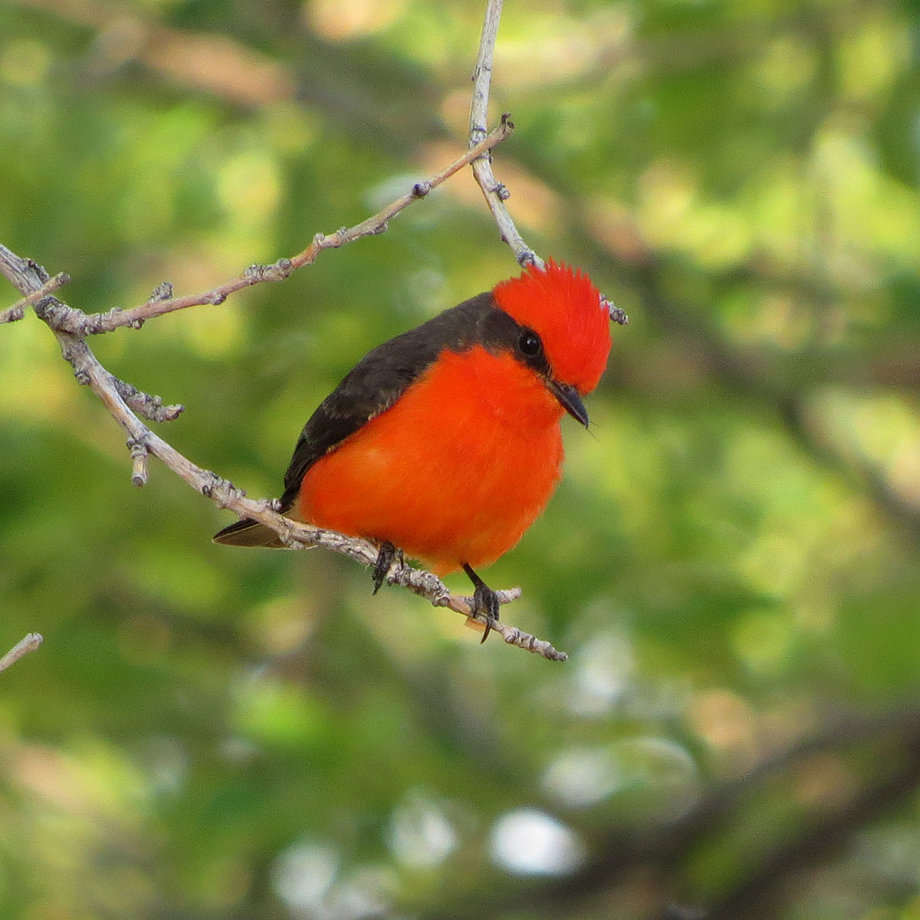 Pyrocephalus rubinus mexicanus 22 apr 14 Rio Grande Village, Texas